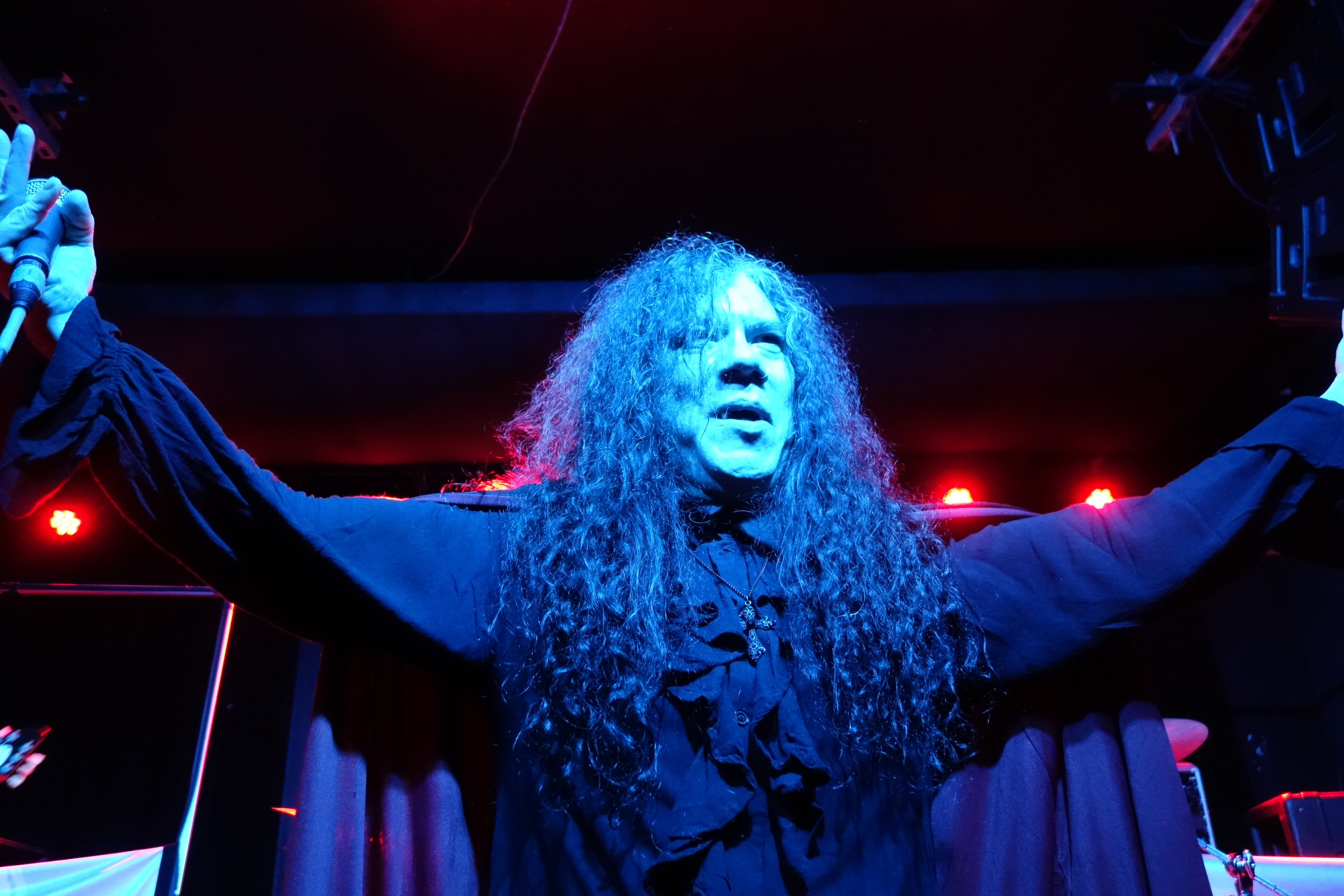 Helstar performing at Saint Vitus Bar (Brooklyn, New York), November 22, 2016. Helstar performing at Saint Vitus Bar (Brooklyn, New York), November 22, 2016.